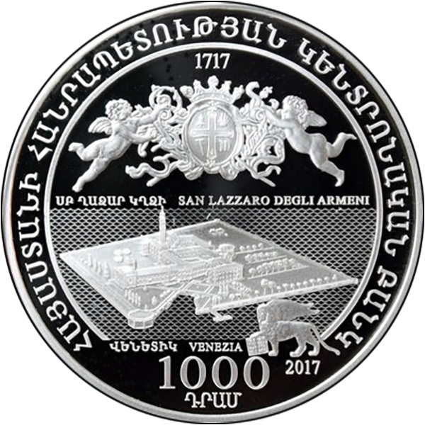 Coin «300th anniversary of Establishment of the Mechitarists Congregation in Venice», 1000 dram, 2017, Ag925, obverse